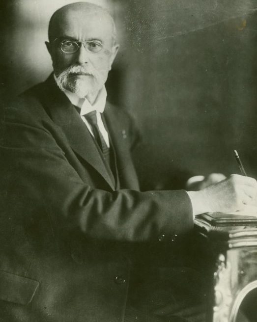 Portrait of Tomas G. Masaryk, first president of Czechoslovakia and Moravian leader